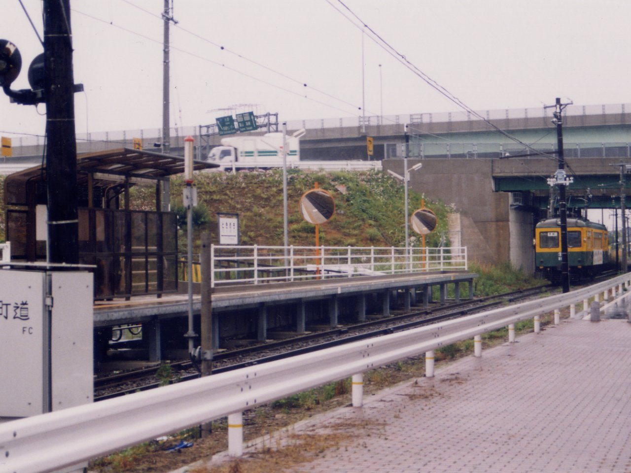 Tokimeki Station, Niigata Kotsu Railway which was abolished on 5 April 1999